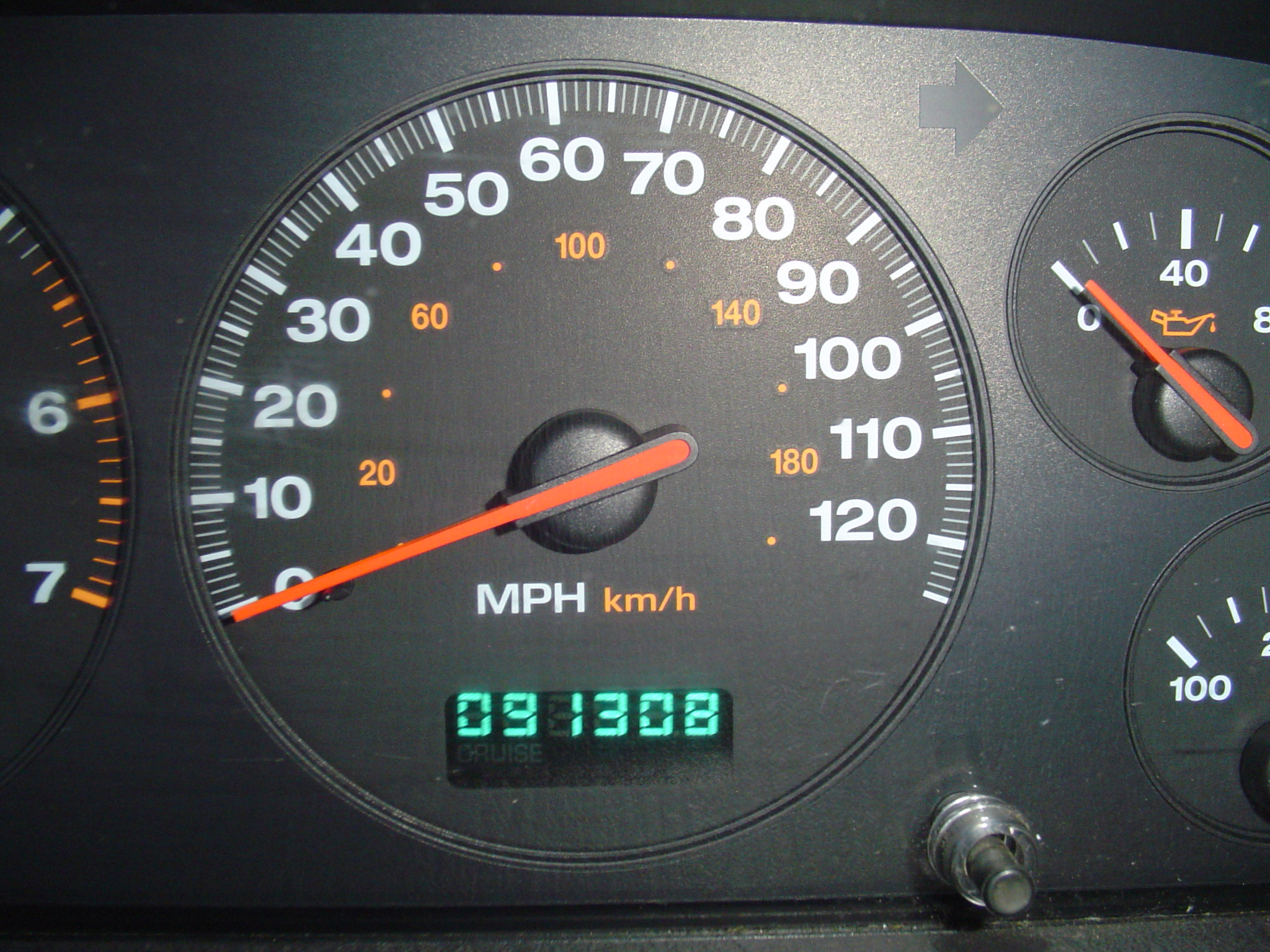 LCD Digital Odometer Blue Display from 2000 Jeep Grand Cherokee Laredo.